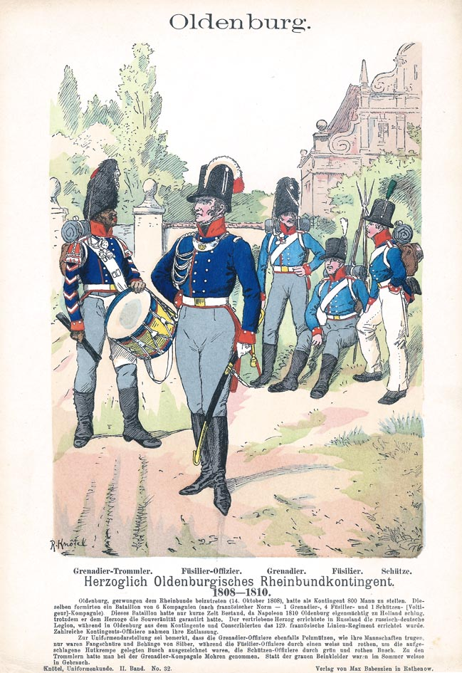 Oldenburg. Herzoglich Oldenburgisches Rheinbundkontingent. 1808-1810